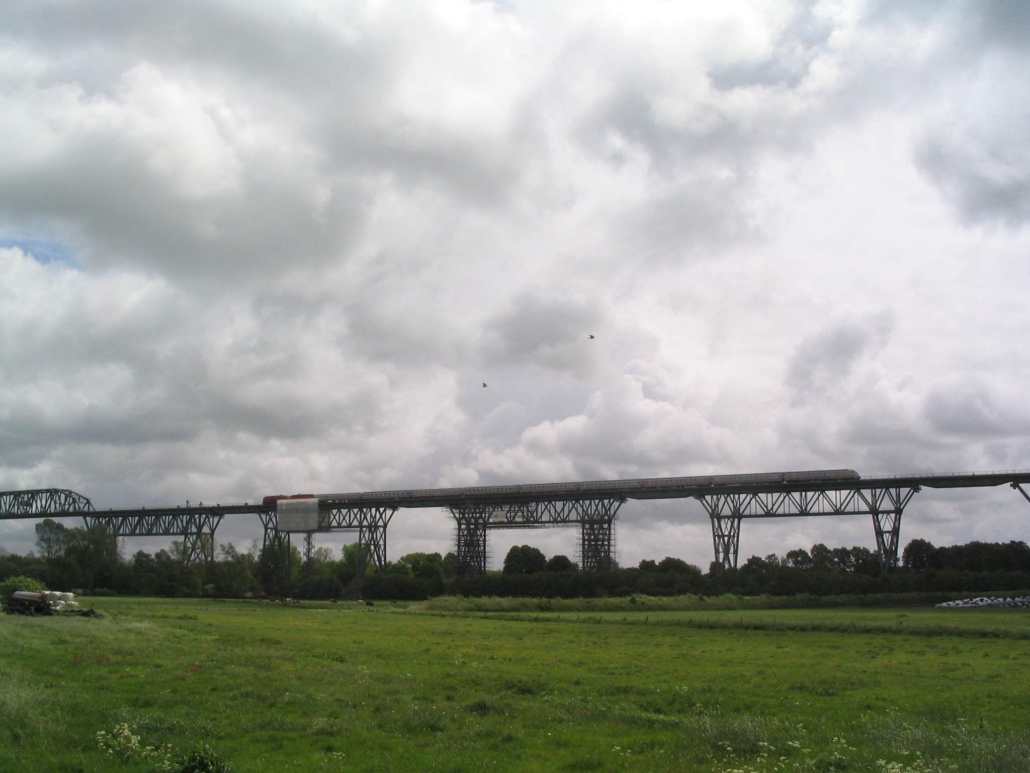 Railway bridge over the Kiel Canal at Hochdonn